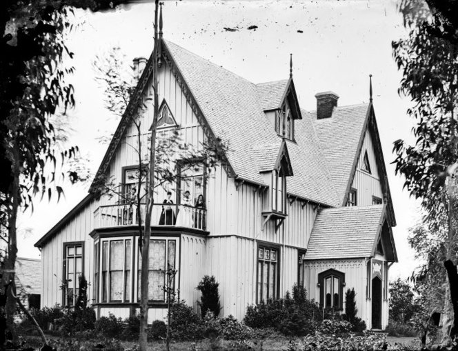 House of J. A. H. Burnett Trenton House in Oneida. Designed by George Frederic Allen in 1867. Allen, George Frederic, 1837-1929. The Burnet home, `Oneida' in Fordell - Architect George Frederic Allen. Harding, William James, 1826-1899 :Negatives of Wanganui district. Ref: 1/1-000169-G. Alexander Turnbull Library, Wellington, New Zealand.